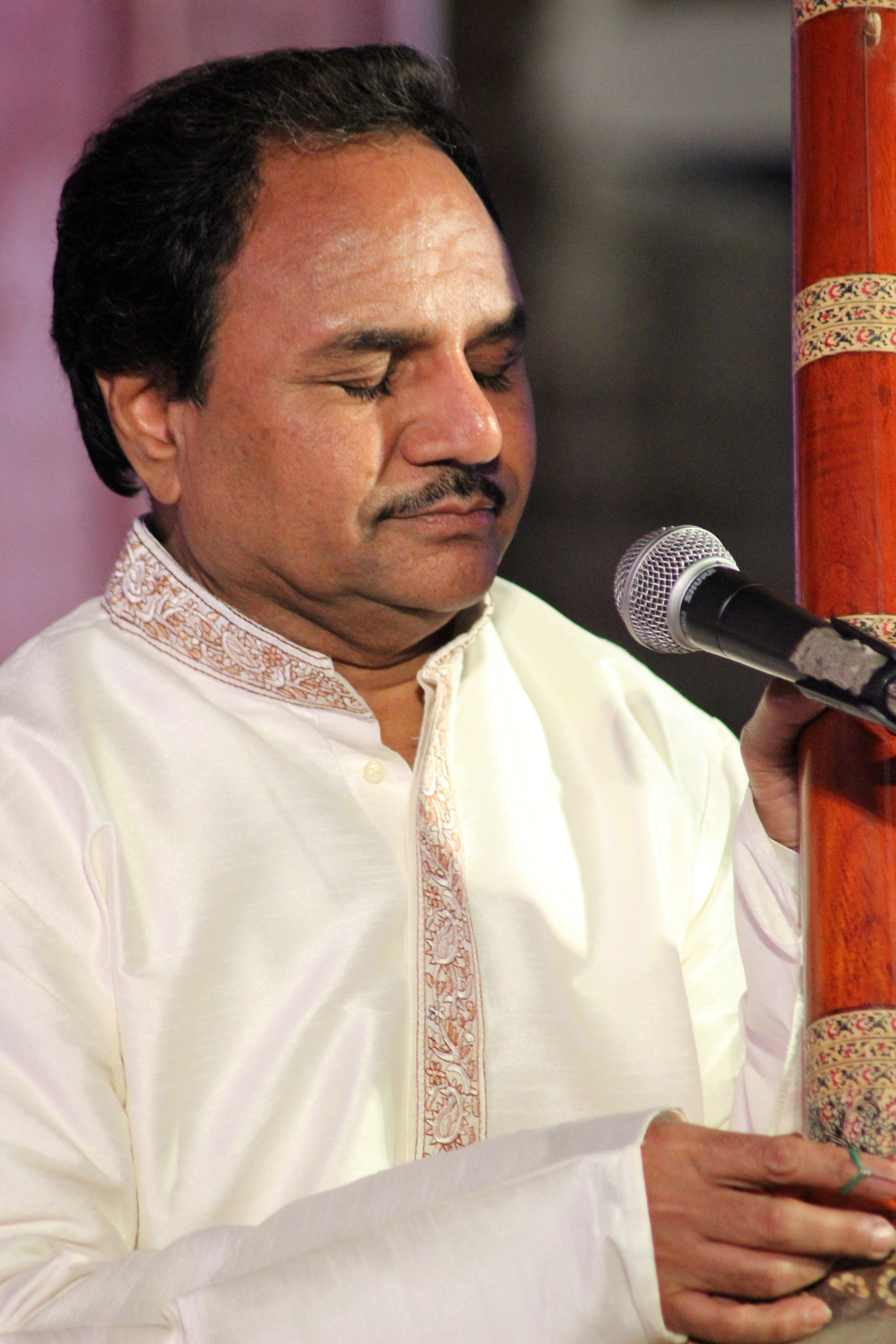 Hemant Chauhan is a Gujarati writer and singer. He specializes in Bhajan, religious and Garba songs and other folk genres,performing at Bharat Bhavan Bhopal India